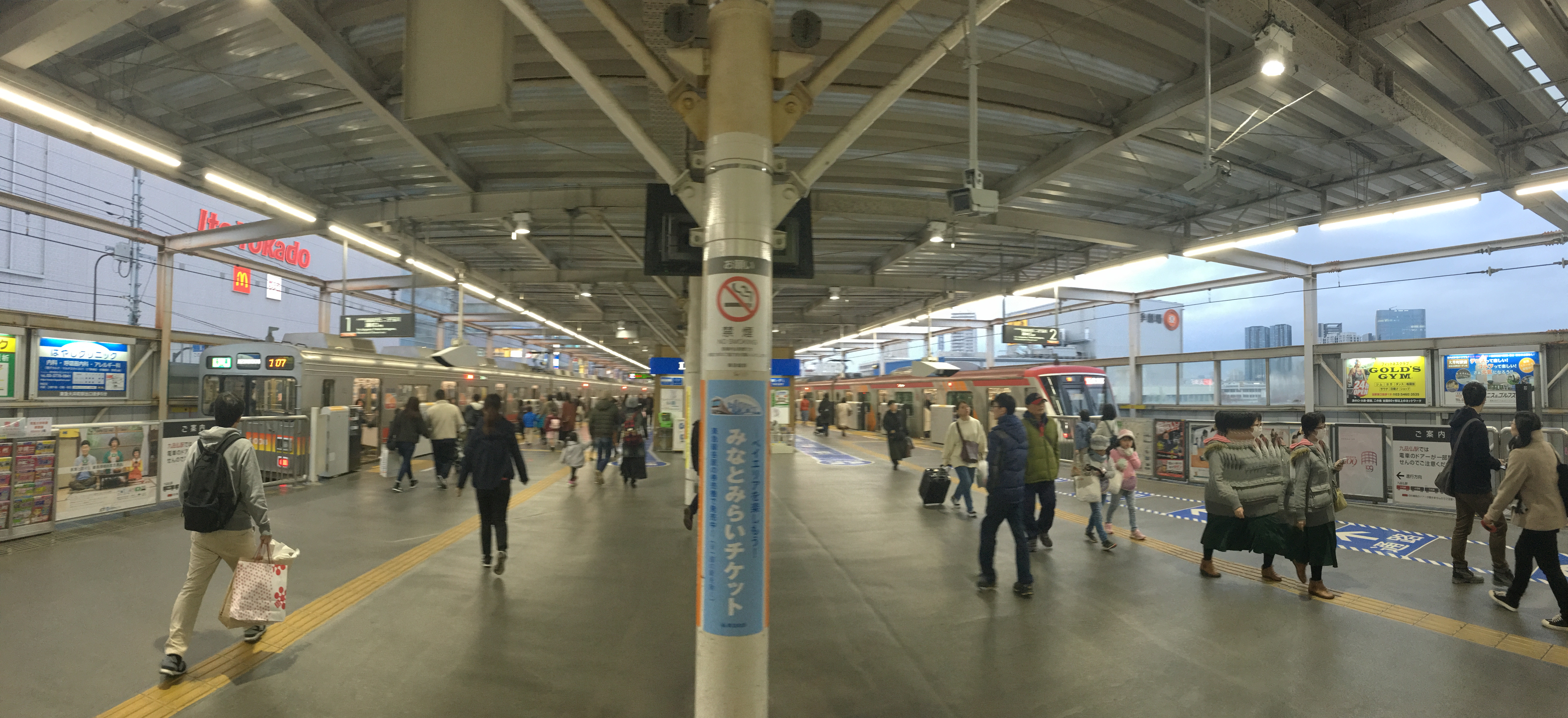 大井町駅の東急大井町線ホーム (Tokyu Oimachi Line, Oimachi Station platforms)